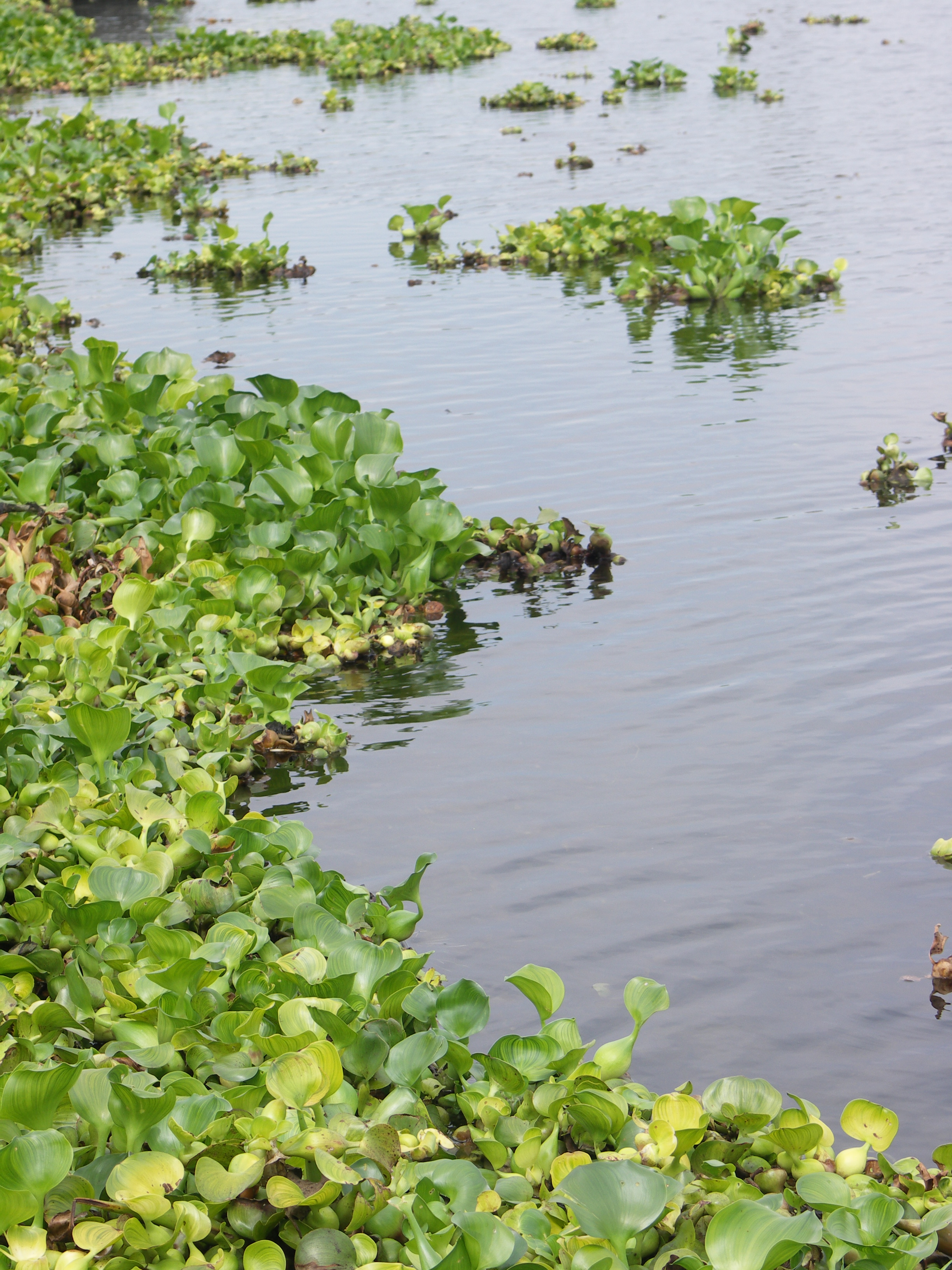 Water Hyacinths (Eichhornia crassipes) on the Roodeplaat dam, Gauteng, South Africa